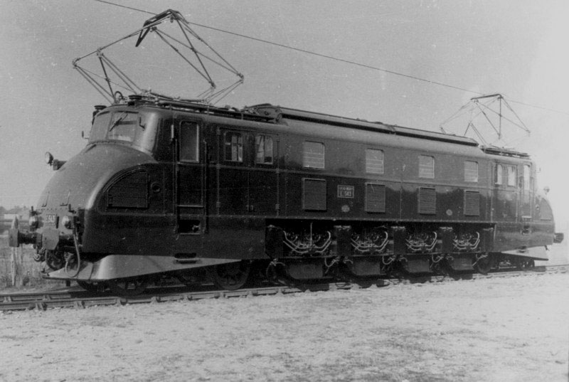 PO-Midi E 543, next SNCF 2D2 5543